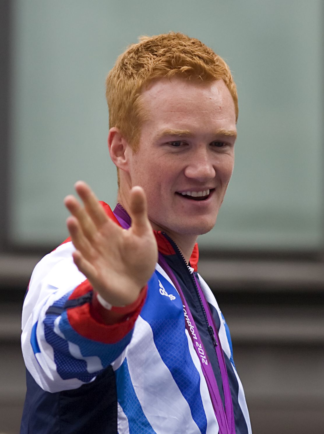 Long jump gold medallist Greg Rutherford at the London 2012 Olympic & Paralympic Games Victory Parade.